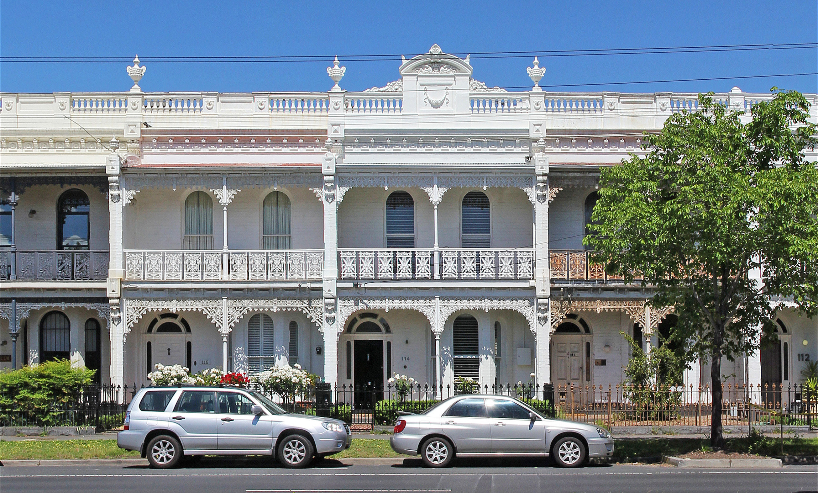 Victorian terrace on Canterbury Road, Middle Park, Melbourne, Victoria, Australia .